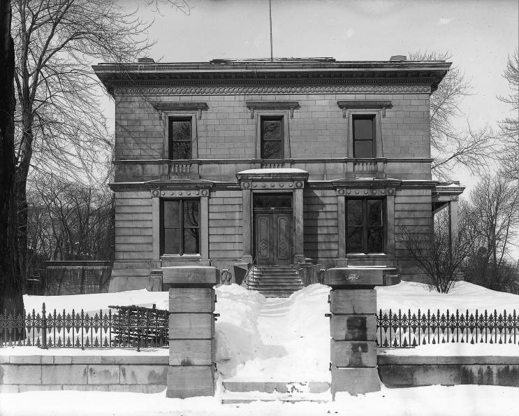 Photograph, "Dilcoosha", Jesse Joseph's house, McGill University, Montreal, QC, 1913 Wm. Notman & Son, Silver salts on glass - Gelatin dry plate process, 20 x 25 cm